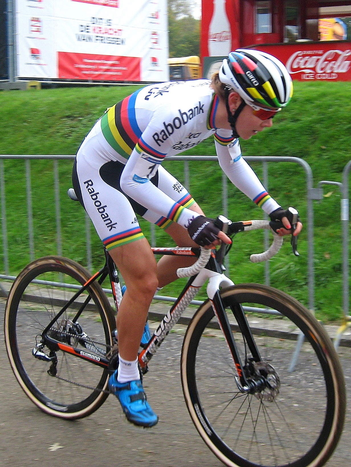 World Champion Thalita de Jong (Rabo-Liv) wins the UCI World Cup Cyclocross on the Cauberg in Valkenburg, Netherlands, Sunday 23 October 2016